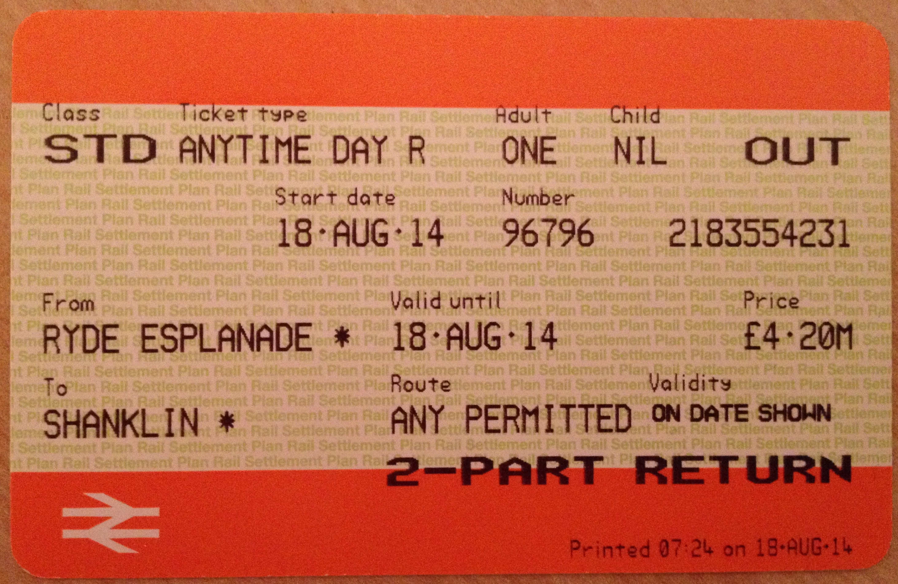 Ticket Ryde Esplanade to Shanklin on the Island Line